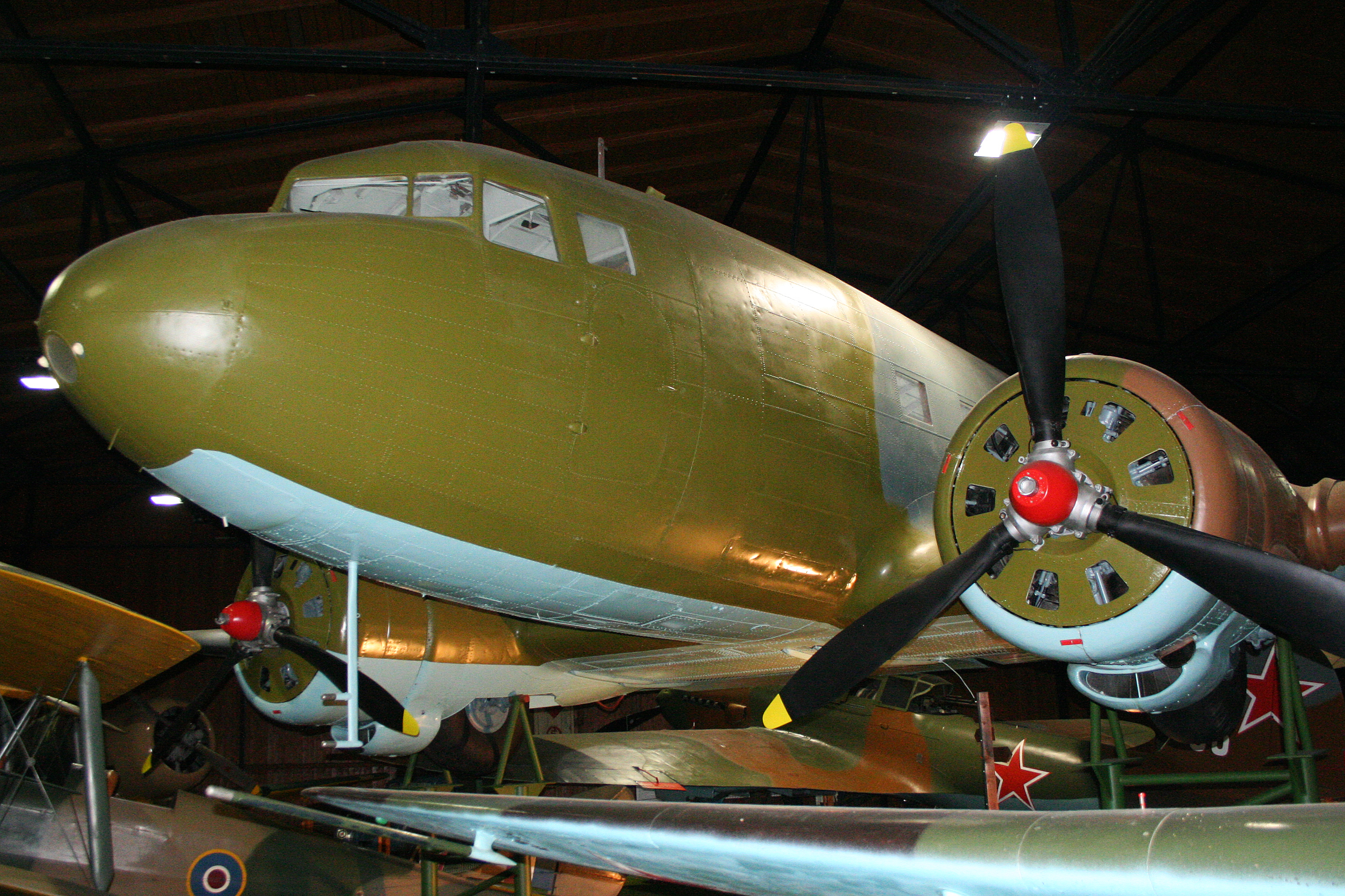 The Li-2 was a Russian copy of the famous DC-3 Dakota. This example is painted in false Russian WW2 markings, it actually saw Czech AF service as '3002'. Note that the cockpit interior is lit up! msn 23443002. On display in the WW2 hangar. Kbely Museum, Czech Republic. 07-10-2012